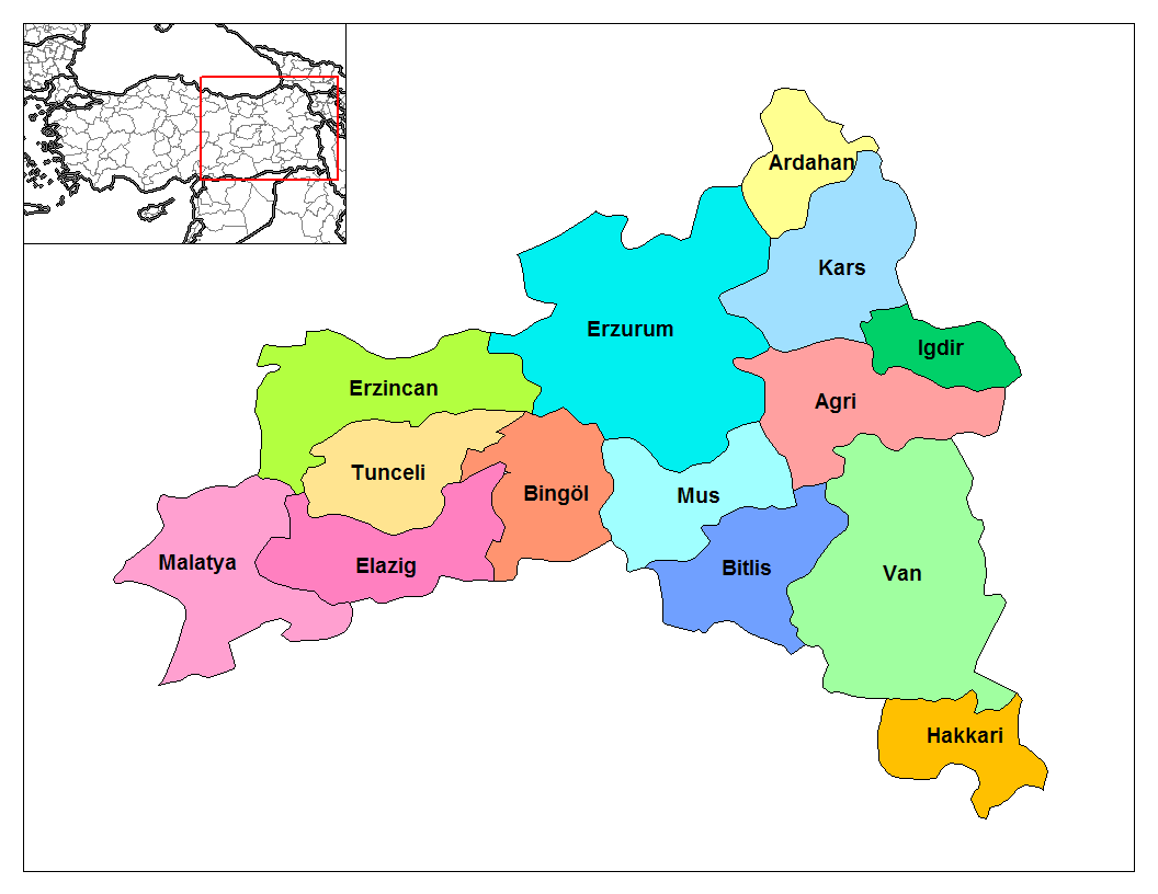 Map of the East Anatolia Region of Turkey.